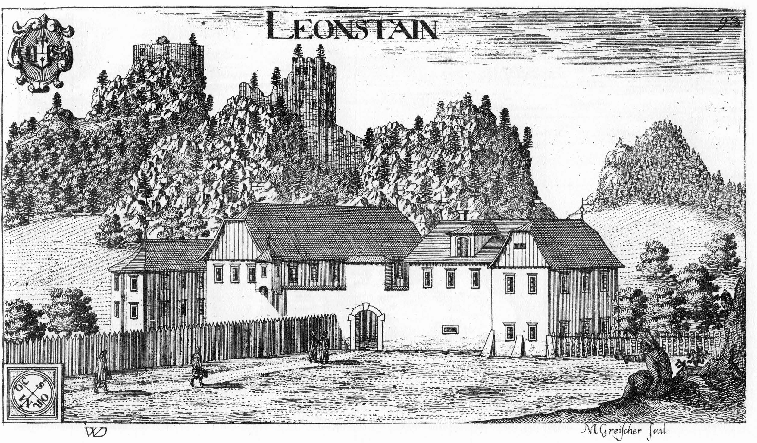 Castle of Leonstain in Pörtschach am Wörther See, Carinthia, Austria, European Union